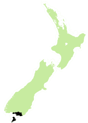 Map showing location of Invercargill electorate according to 2008 boundaries